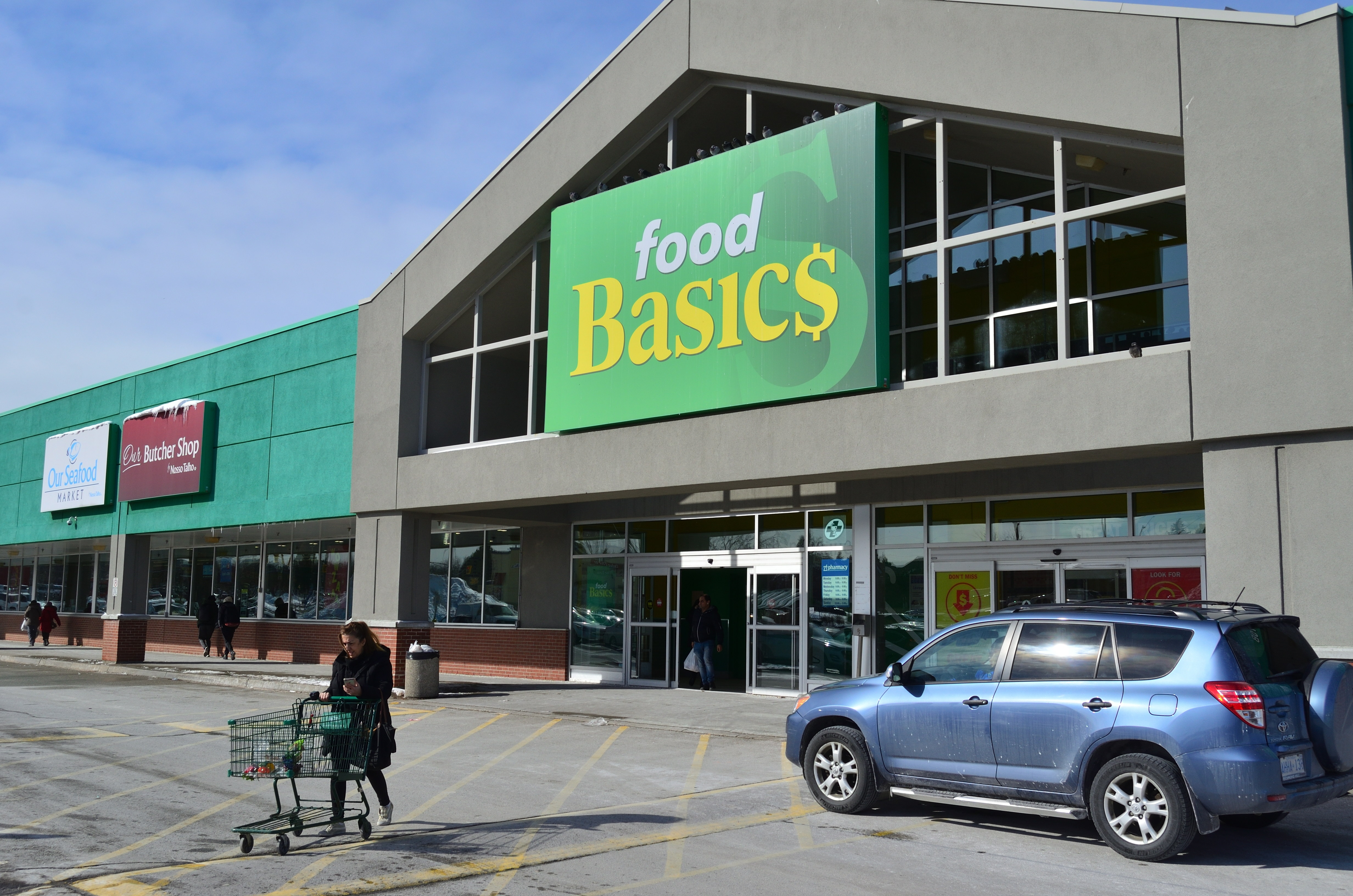 Food Basics - Address: 1070A Major Mackenzie Dr E, Richmond Hill, ON L4S 1P3